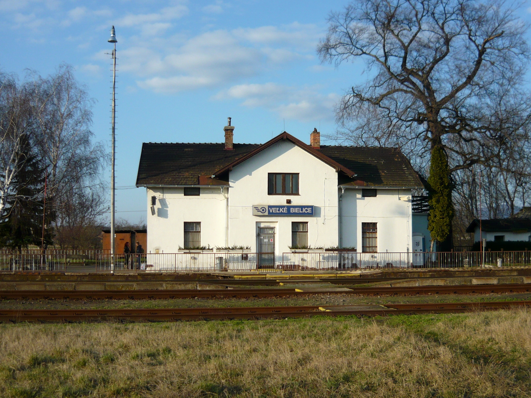 Veľké Bielice train station in Partizánske, Slovakia.